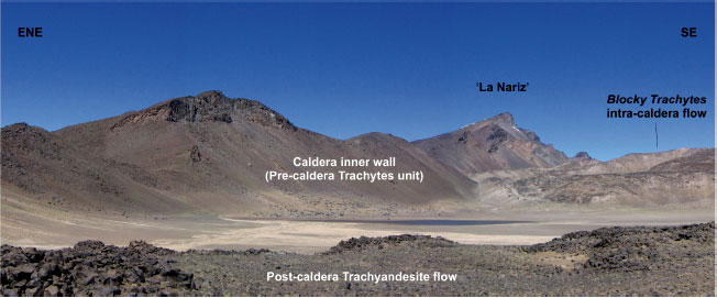 Interior of the Payún Matrú showing the eastern inner caldera wall and the two largest post-caldera and intra-cardera.